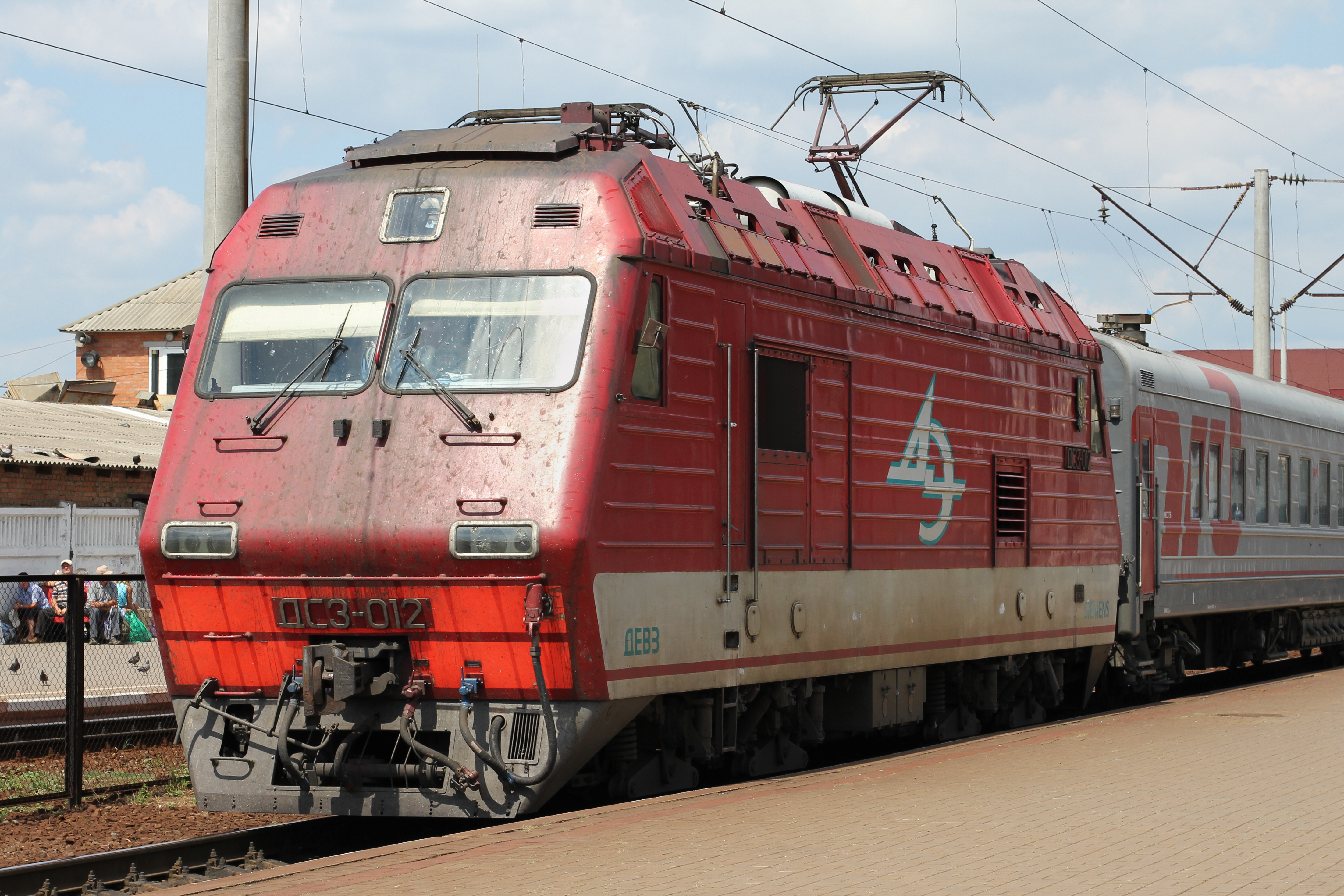 Electric locomotive DS3-012 in Vinnitsa railway station. This locomotive has been made in 2007.